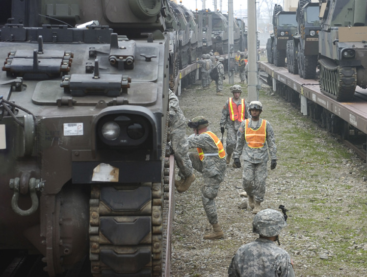 U.S. Army Soldiers from the 662nd Movement Control Team, 25th Transportation Battalion, 501st Sustainment Brigade observe the arrival of M109A6 Paladin self-propelled Howitzers via rail car at Camp Casey, March 27, 2007. The paladins will be used to support exercise Reception, Staging, Onward movement, and Integration/Foal Eagle 2007. (U.S. Navy photo by Mass Communication Specialist 1st Class Daniel N. Woods)